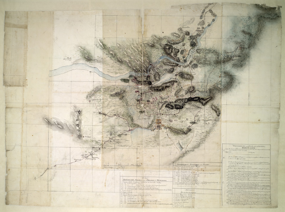 Mackenzie collection Year created: 1785 Year published: 1820 Collection now at the British Library Vijayanagara, the City of Victory, was the most powerful Hindu kingdom in Southern India from 1336 until 1565. It was founded on the bank of the Tungabhadra River by two brothers, Harihara and Bukka, formerly chieftains with the Delhi Sultanate. Vijayanagara flourished as a prosperous centre of Hindu art, culture and architecture, until the Battle of Talikota in 1565 when it was defeated by the armies of a coalition of neighbouring Muslim kingdoms.